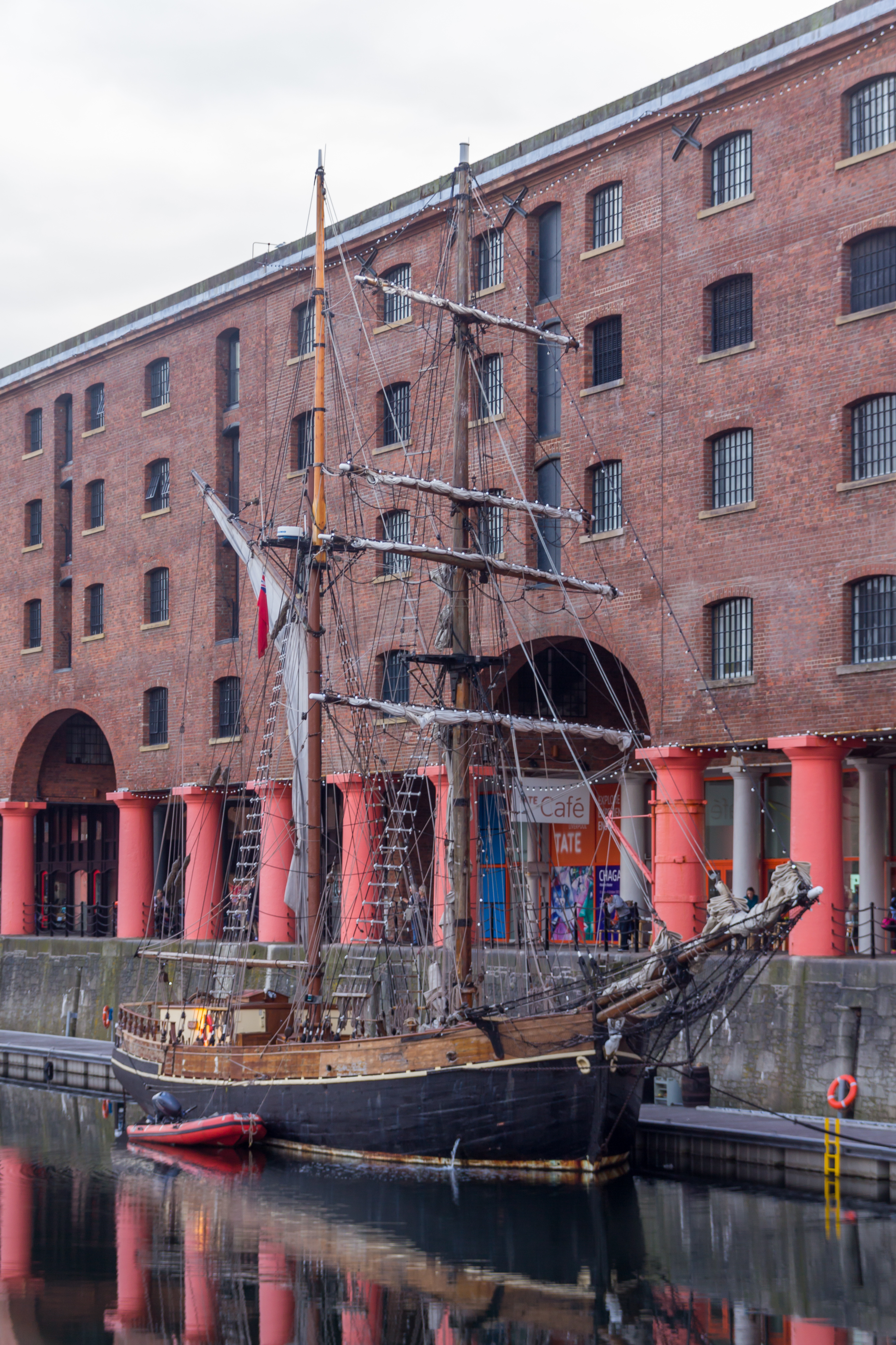 Zebu in front of the Albert Dock warehouses. Liverpool.